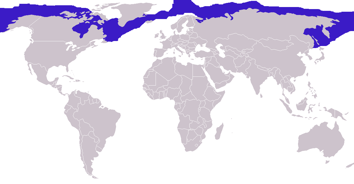 Bearded Seal (Erignathus barbatus) habitat map